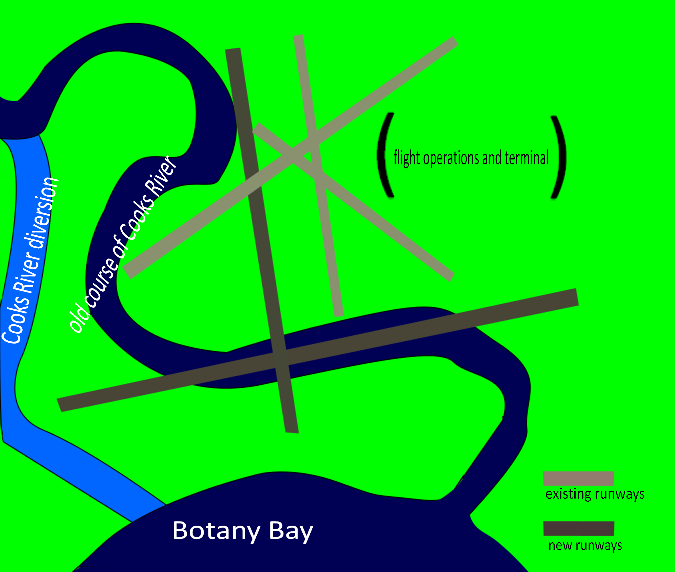 Map of the 1947-1952 extension of the Sydney Airport